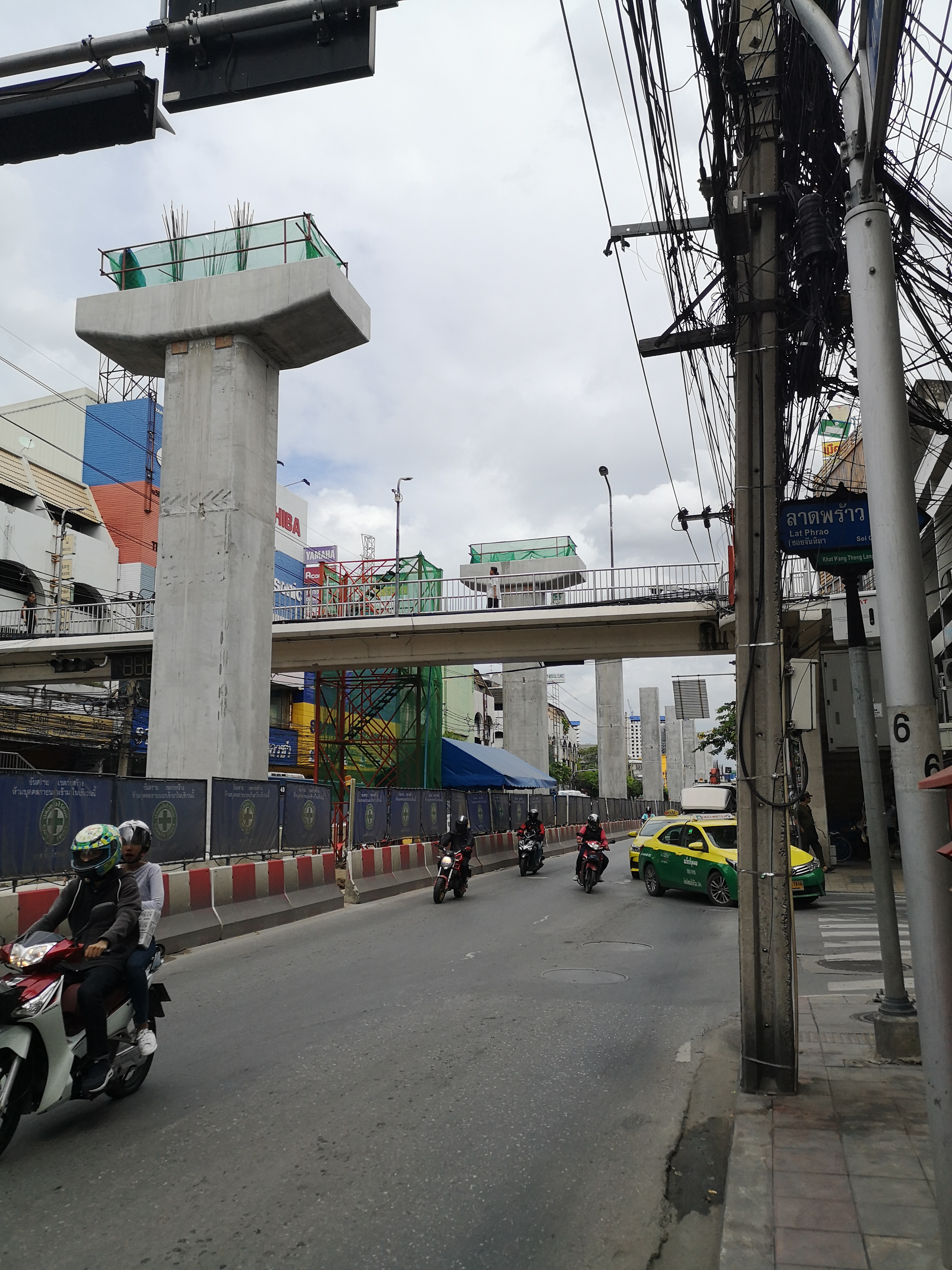 Lat Phrao Road